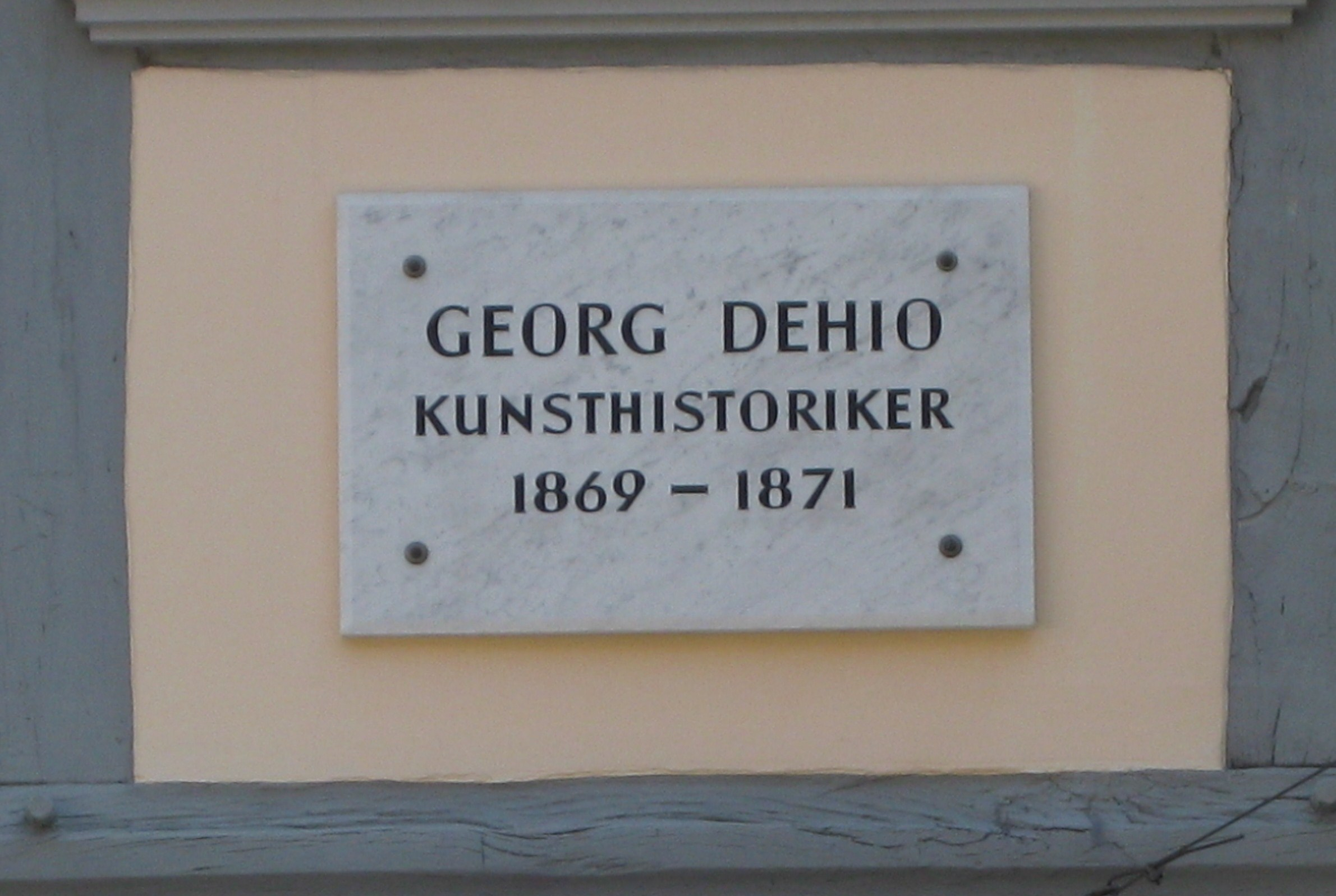 Memorial plaque in honour of Georg Dehio as a student at the building Jüdenstr. 32 in Göttingen